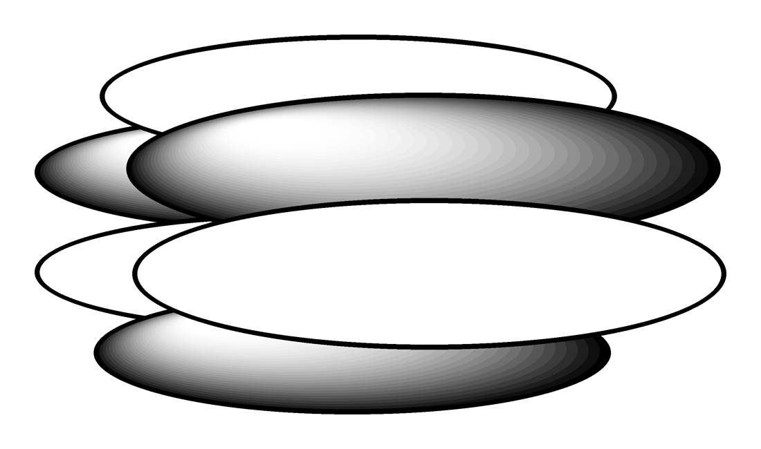 Boundary surface diagram of a phi bond (bonding molecular orbital with φ symmetry, formed from the overlap of two f orbitals)